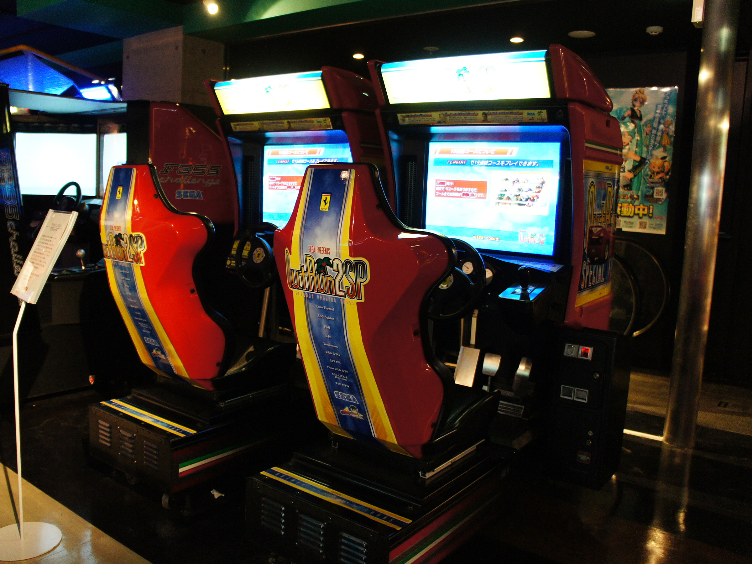 SEGA Outrun2SP.